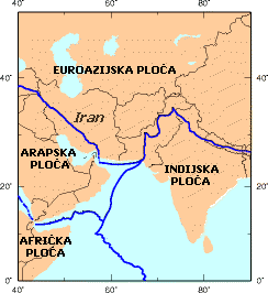 Major tectonic plates in Iranian neighborhood (Croatian description).